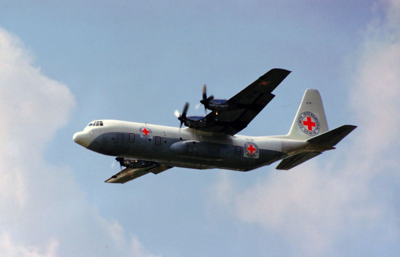 Safair ( Comite International Geneve) L100-30 ZS-JIZ